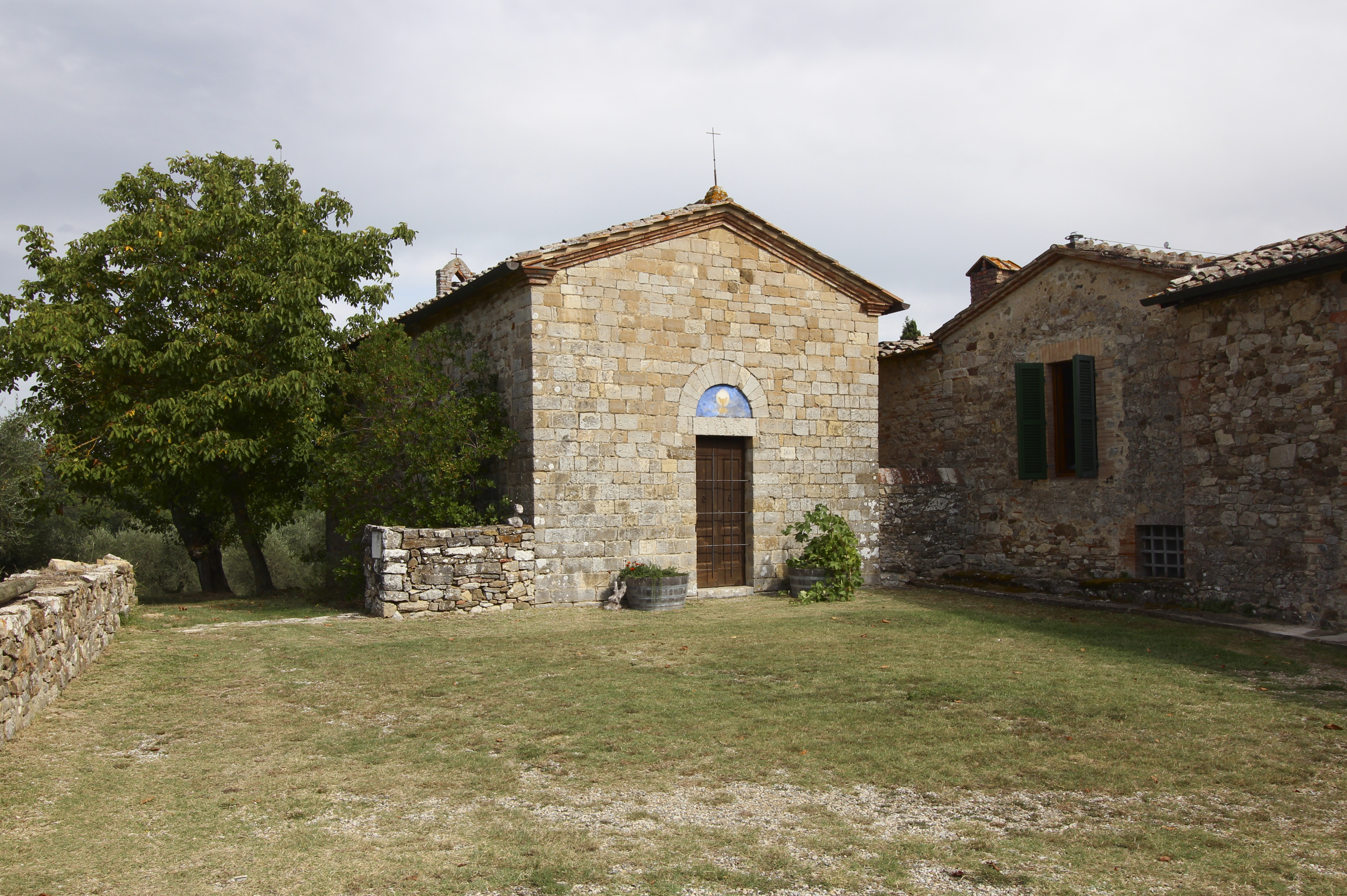 Church San Michele Arcangelo a Petroio, near Quercegrossa, hamlet of Castelnuovo Berardenga and Monteriggioni, Province of Siena, Tuscany, Italy. The Church is on the side of Castelnuovo Berardenga.